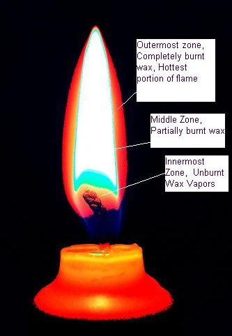 Candle Flame with color shift, Candle flame zones marked